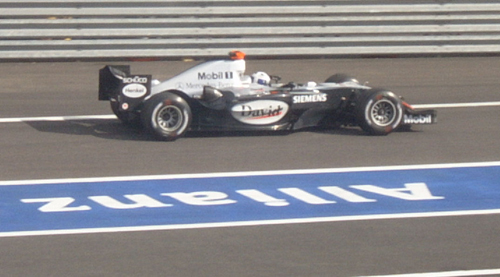 David Coulthard driving the McLaren MP4/19b in 2004